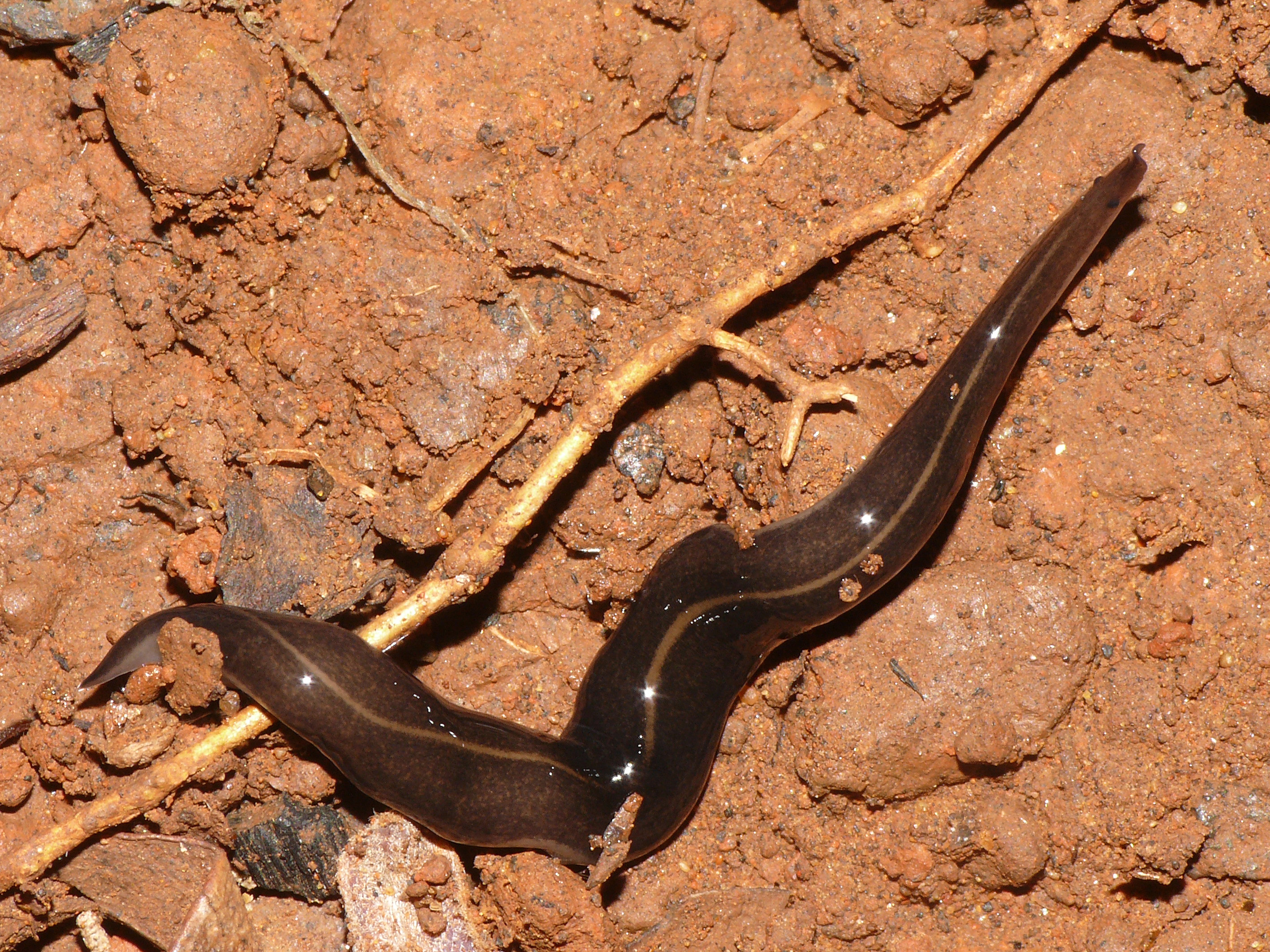 Photo of Platydemus manokwari. Head is on the right. Locality: Ogasawara Islands, Japan.